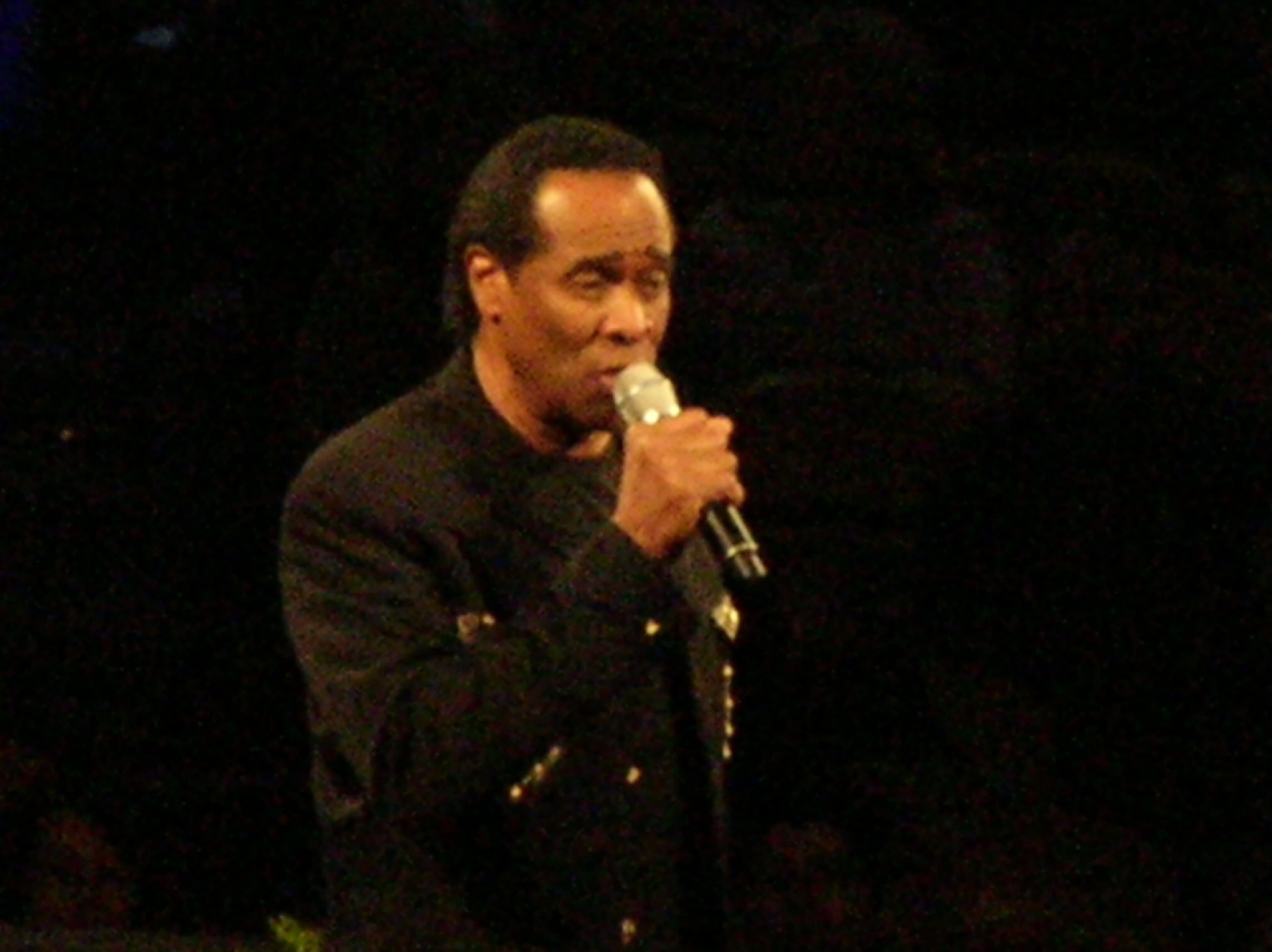 Leon Patillo performs at the Get Motivated Seminar at the Cow Palace in Daly City, California.